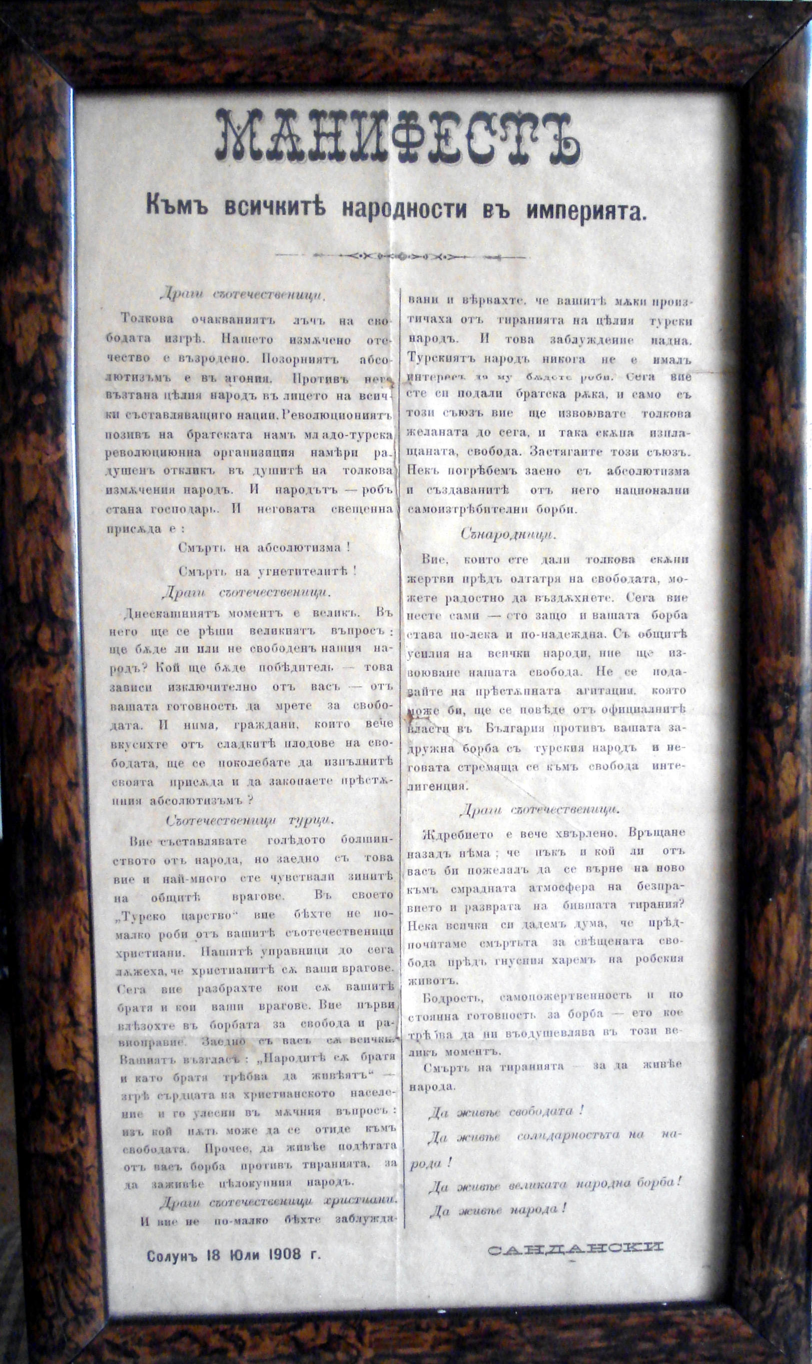 Manifest of NFP/bulgarian section/ "to all the ethnic groups of the Empire"